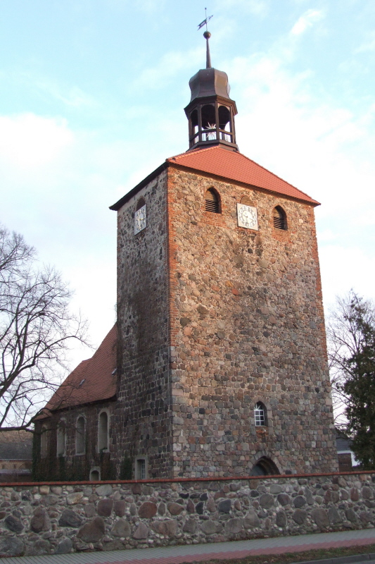 village church Groß Machnow